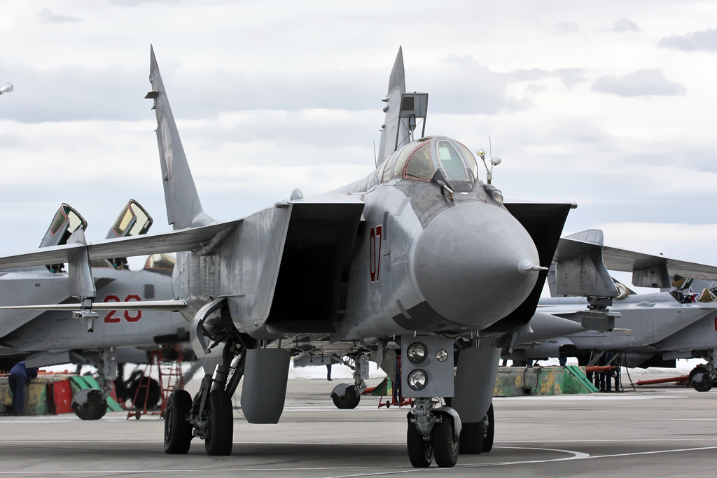 MiG-31 from 790th Fighter Order of Kutuzov 3rd class Aviation Regiment on the ramp of Khotilovo airbase, Tver region.